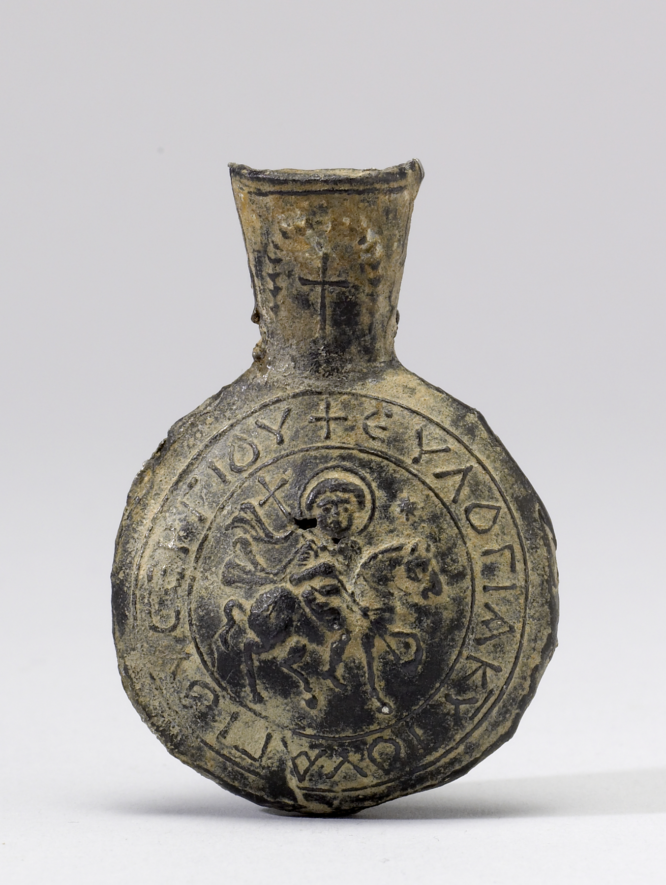 This rare and beautifully preserved flask is one of the first to depict St. Sergios on horseback, surrounded by the inscription: "Blessing of the Lord of Saint Sergios." The cult of this 3rd-century saint reached its height of popularity in the 6th century, at the site of his martyrdom in Sergiopolis (in northern Syria).